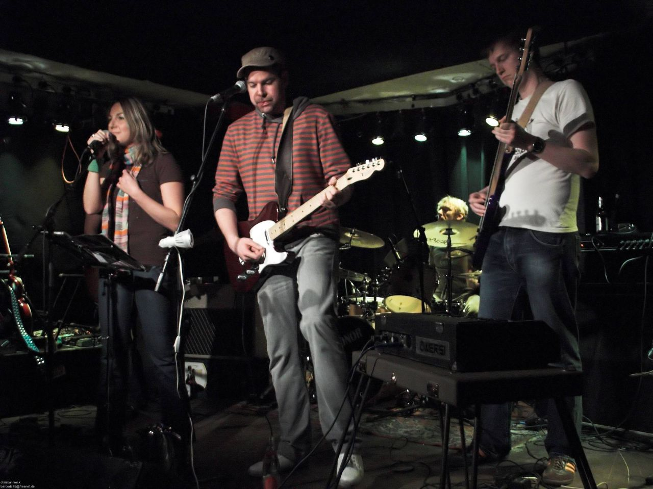 The band "Stars of Track and Field".